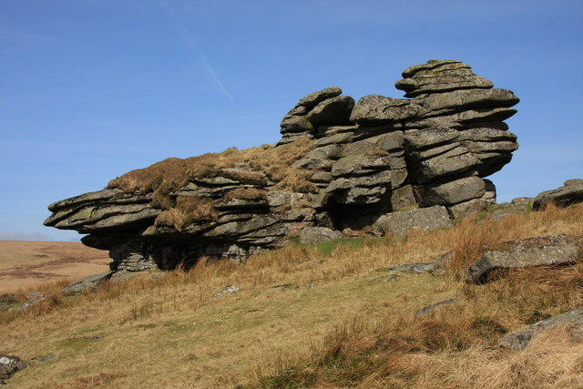 Crow Tor Supposedly the shape of a sitting crow.